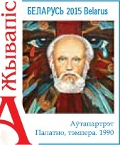 Post stamp showing auto-portrait of belarusian artist Vladimir Stelmashonok (created in 1990); stamp issued in 2015